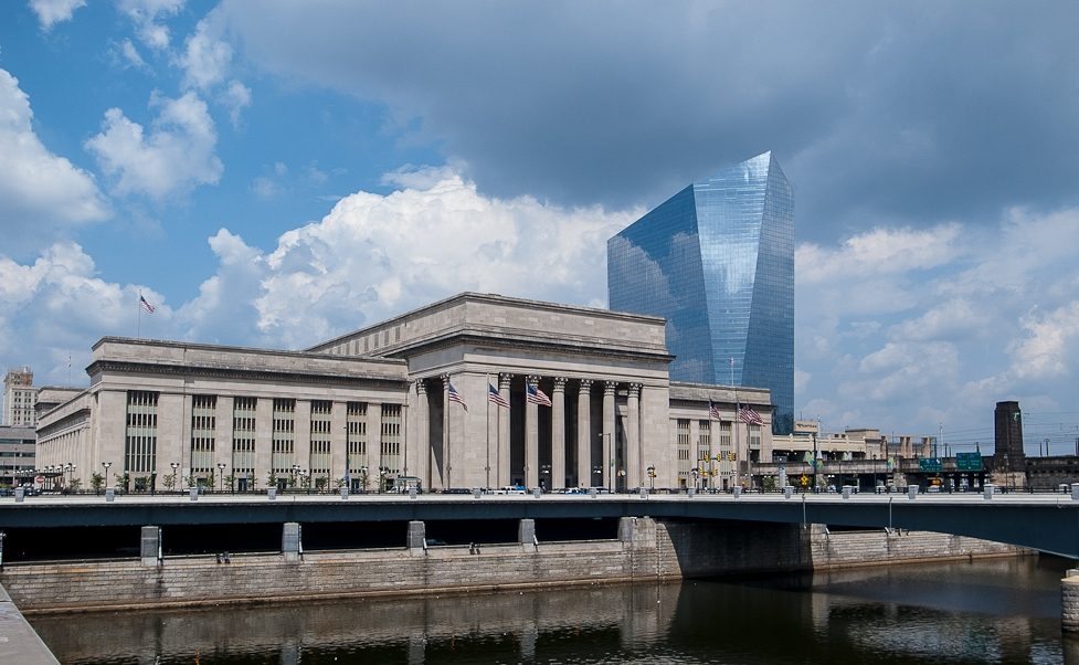 Philadelphia - 30th street station